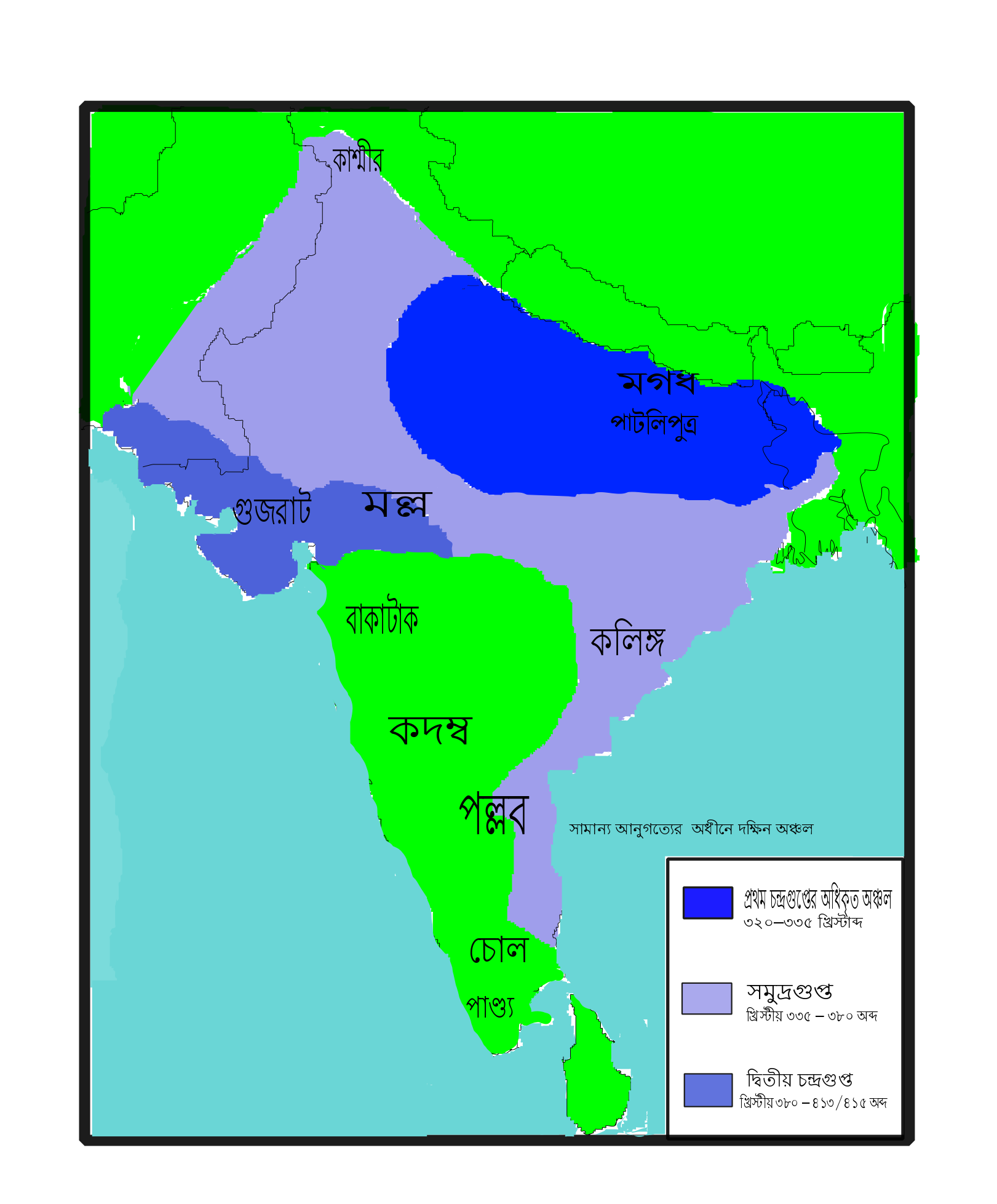 Gupta empire Bengali map